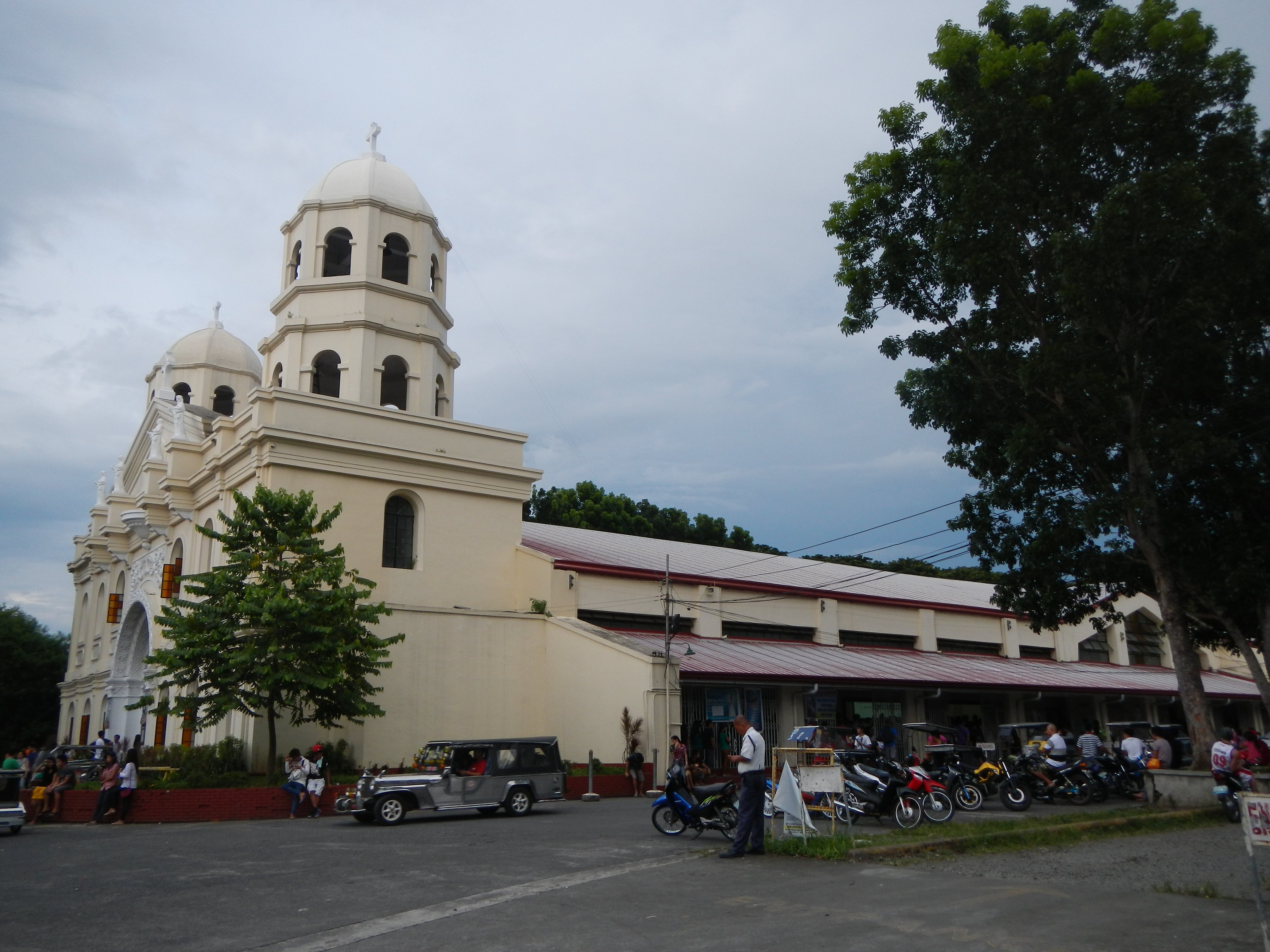 Built in 1881, Saint John the Evangelist Parish Church of Tanauan [1] Roman Catholic Archdiocese of Lipa[2] [3] Coordinates: 14°5'9"N 121°9'13"E - Vicariate VI: Vicariate of the Most Holy Rosary - Saint John the Evangelist is its patron & its main church is the Saint John the Evangelist Parish Church of Tanauan beside the La Consolacion College Tanauan[4] [5](formerly Our Lady of Fatima Academy, 1948), run by the Augustinian Sisters of Our Lady of Consolation, is the first Catholic school in the city. Tanauan, Batangas [6] - The City of Tanauan is a first class city in the province of Batangas, Philippines. According to the latest census, it has a population of 152,393 inhabitants in 30, 354 households; incorporated as a city under Republic Act No. 9005, signed on February 2, 2001, and ratified on March 10, 2001. [7] Coordinates: 14°5'28"N 121°5'51"E [8] Geographical location: Batangas, Region 4, Philippines, Asia Geographical coordinates: 14° 4' 58" North, 121° 9' 2" East This place is situated in Batangas, Region 4, Philippines, its geographical coordinates are 14° 4' 58" North, 121° 9' 2" East and its original name (with diacritics) is Tanauan. Website